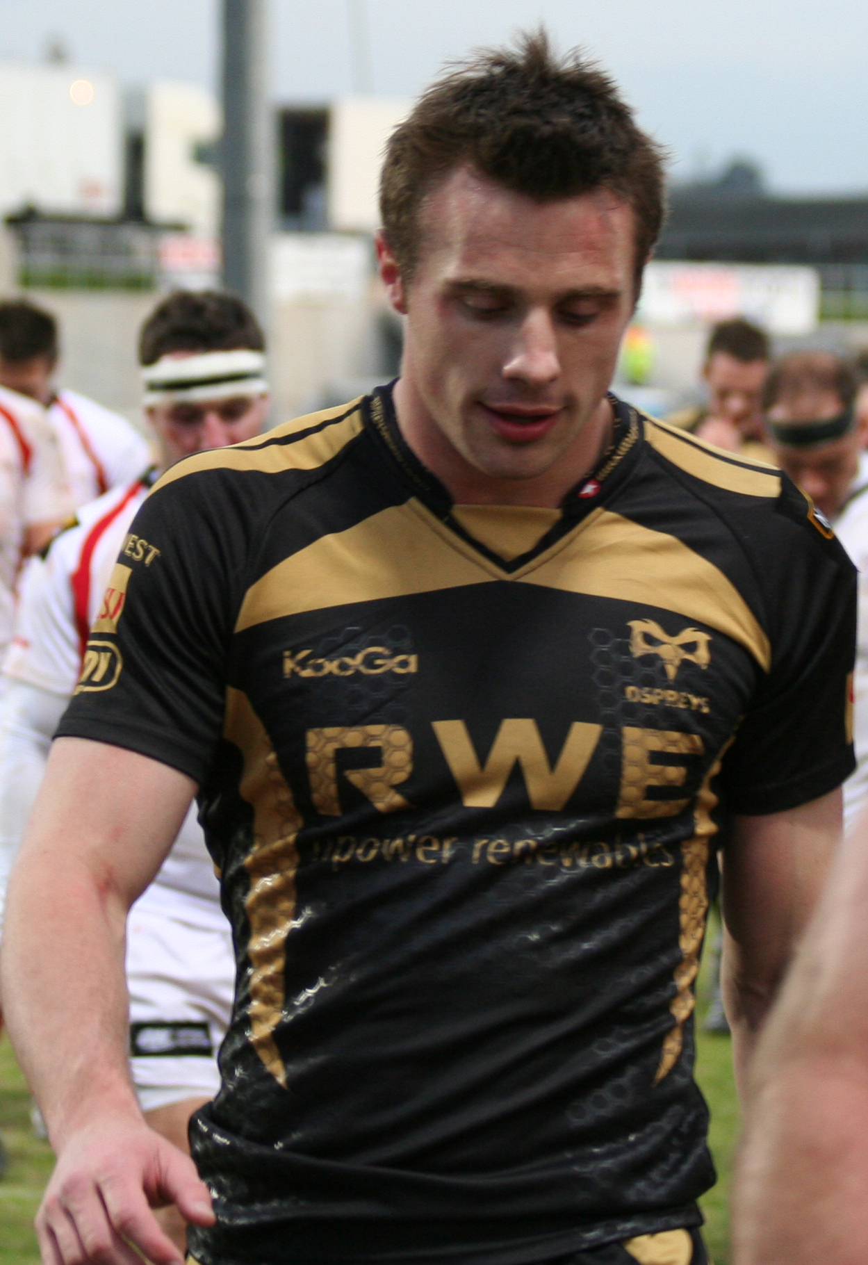 Tommy Bowe lining out for Ospreys versus Ulster in a Magner's League match at Ravenhill, Belfast